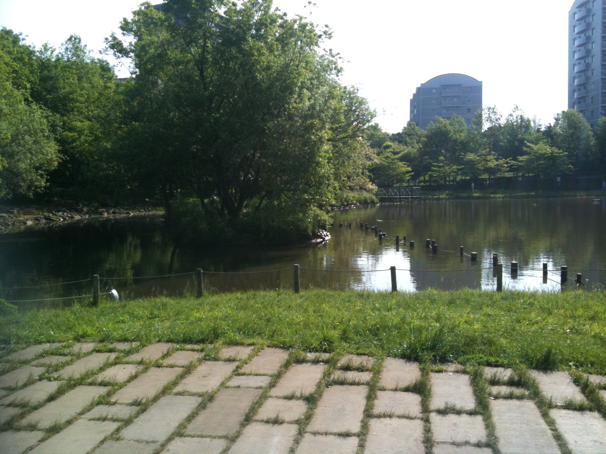 Tokushō Park, located in Tsuzuki ward, Yokohama.